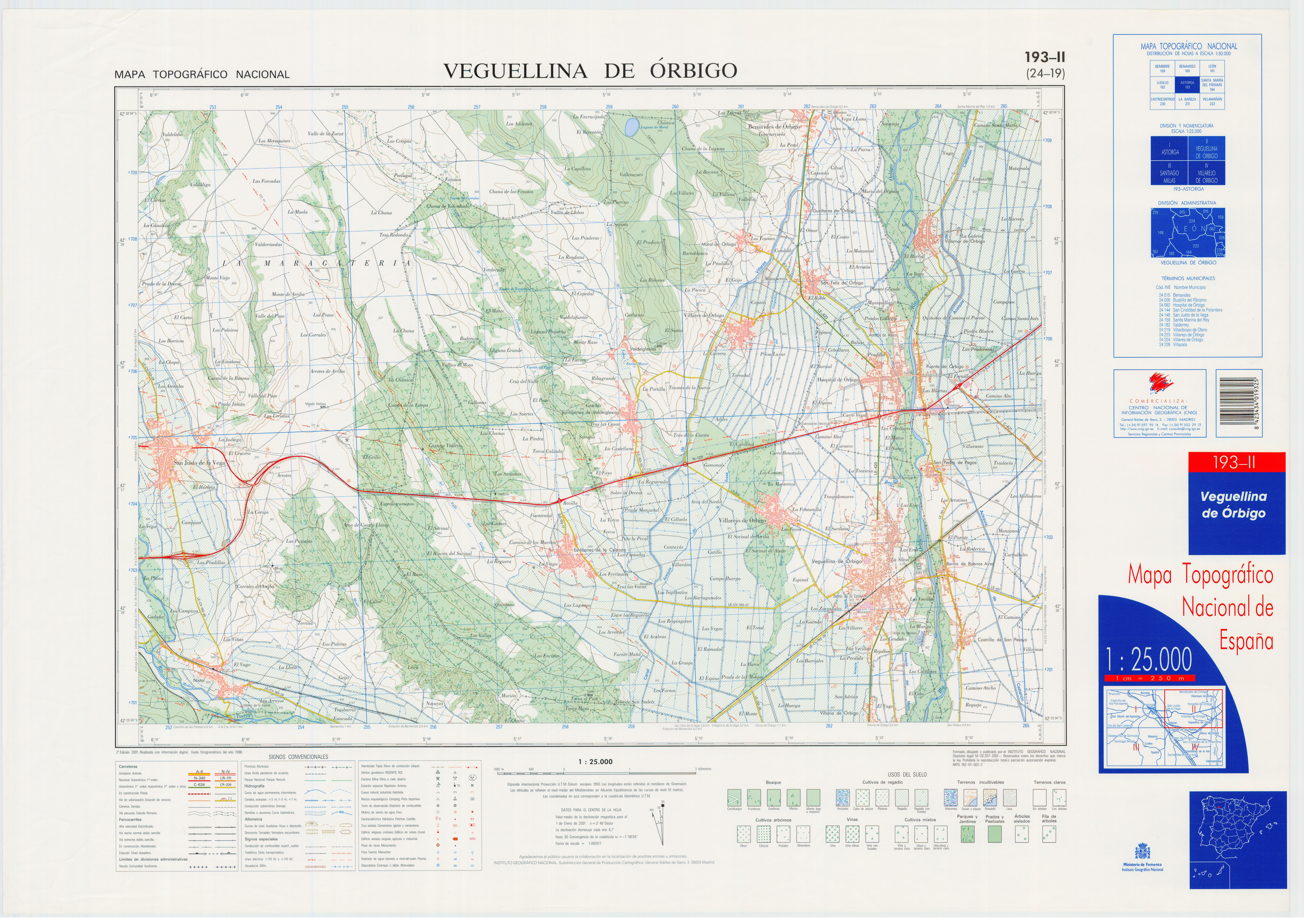 Fragment 0193c2 of the National Topographic Map of Spain in 2001 at a scale of 1:25000 printed and scanned with a resolution of 250 ppi. It shows Veguellina de Orbigo.